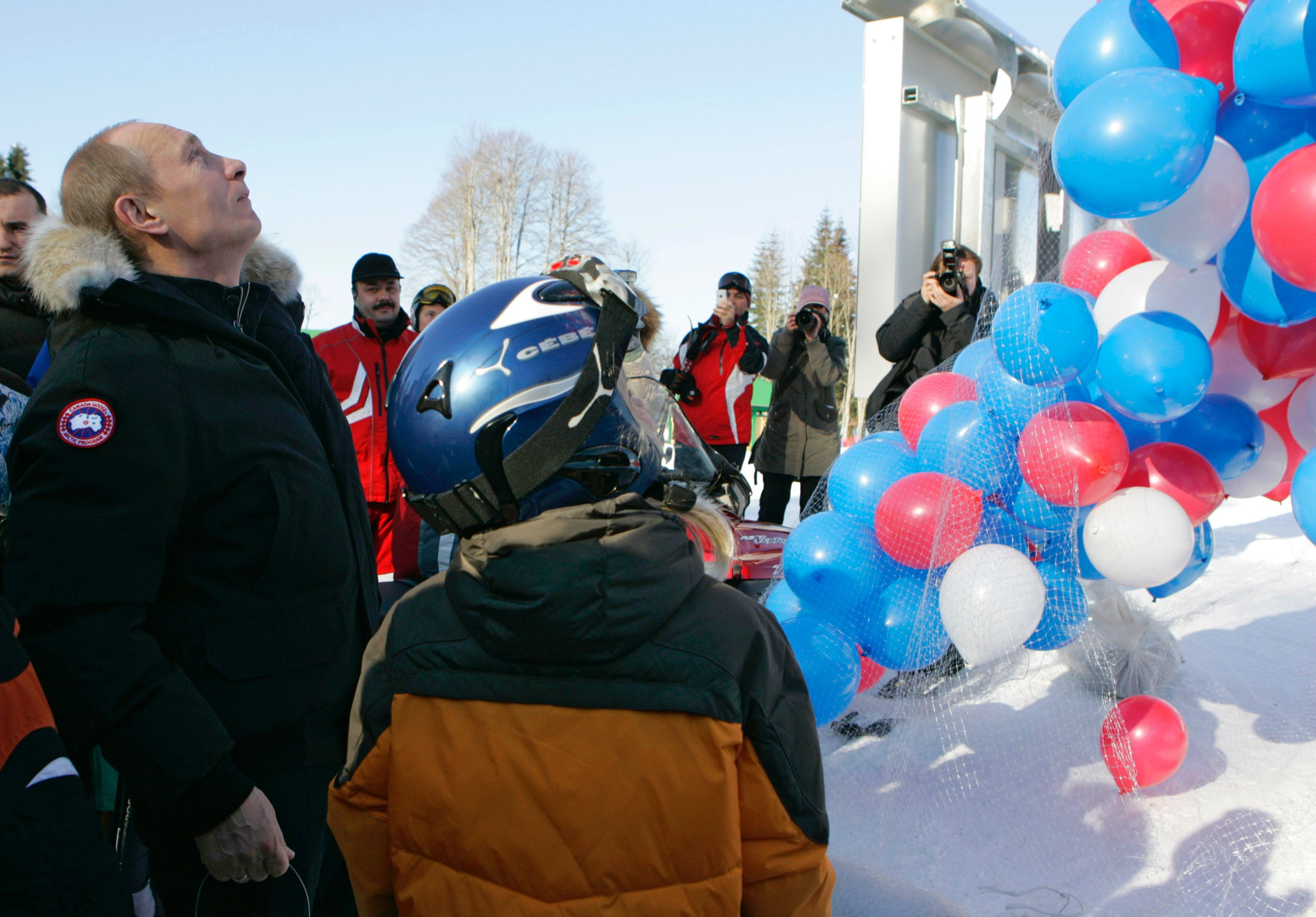 SOCHI. At the opening ceremony of the Krasnaya Polyana ski resort.